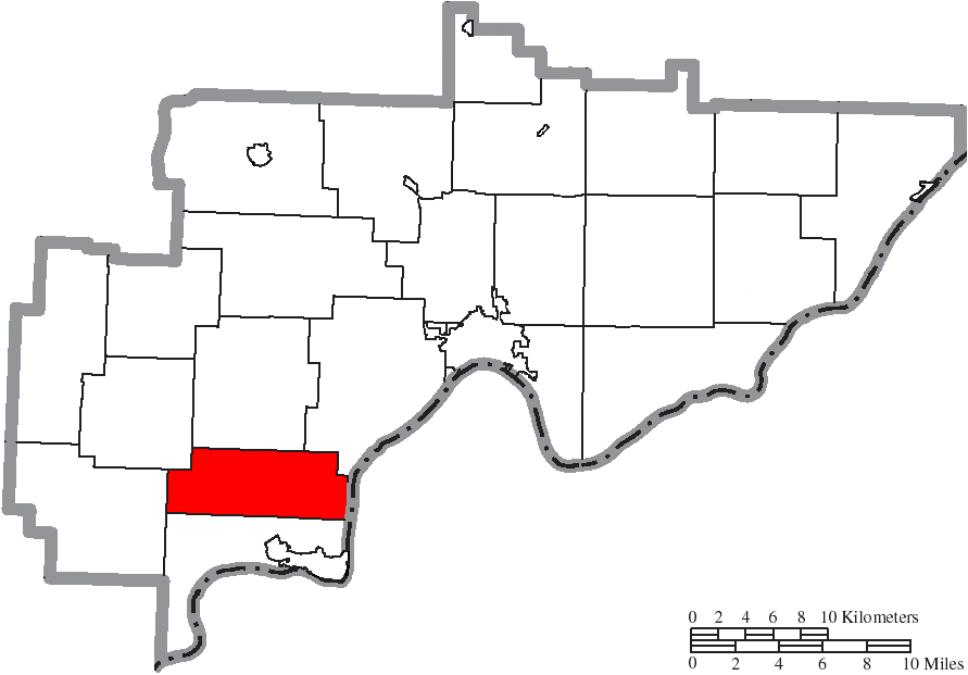 Map of the municipal and township boundaries of Washington County, Ohio, United States, as of the 2000 census, with the location of Dunham Township highlighted. Township borders are shown only in unincorporated areas in order to differentiate incorporated and unincorporated areas more clearly.